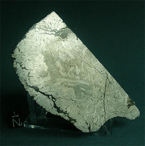 Patos de Minas (octahedrite) iron meteorite, 735g endcut from the Meteorite Recon collection